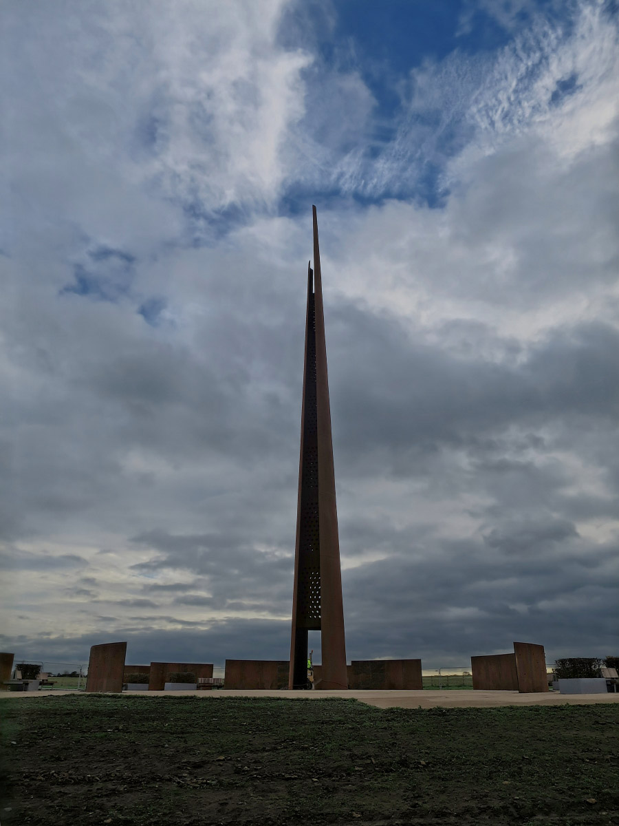 Memorial Spire at the International Bomber Command Centre at Canwick Hill in Lincoln